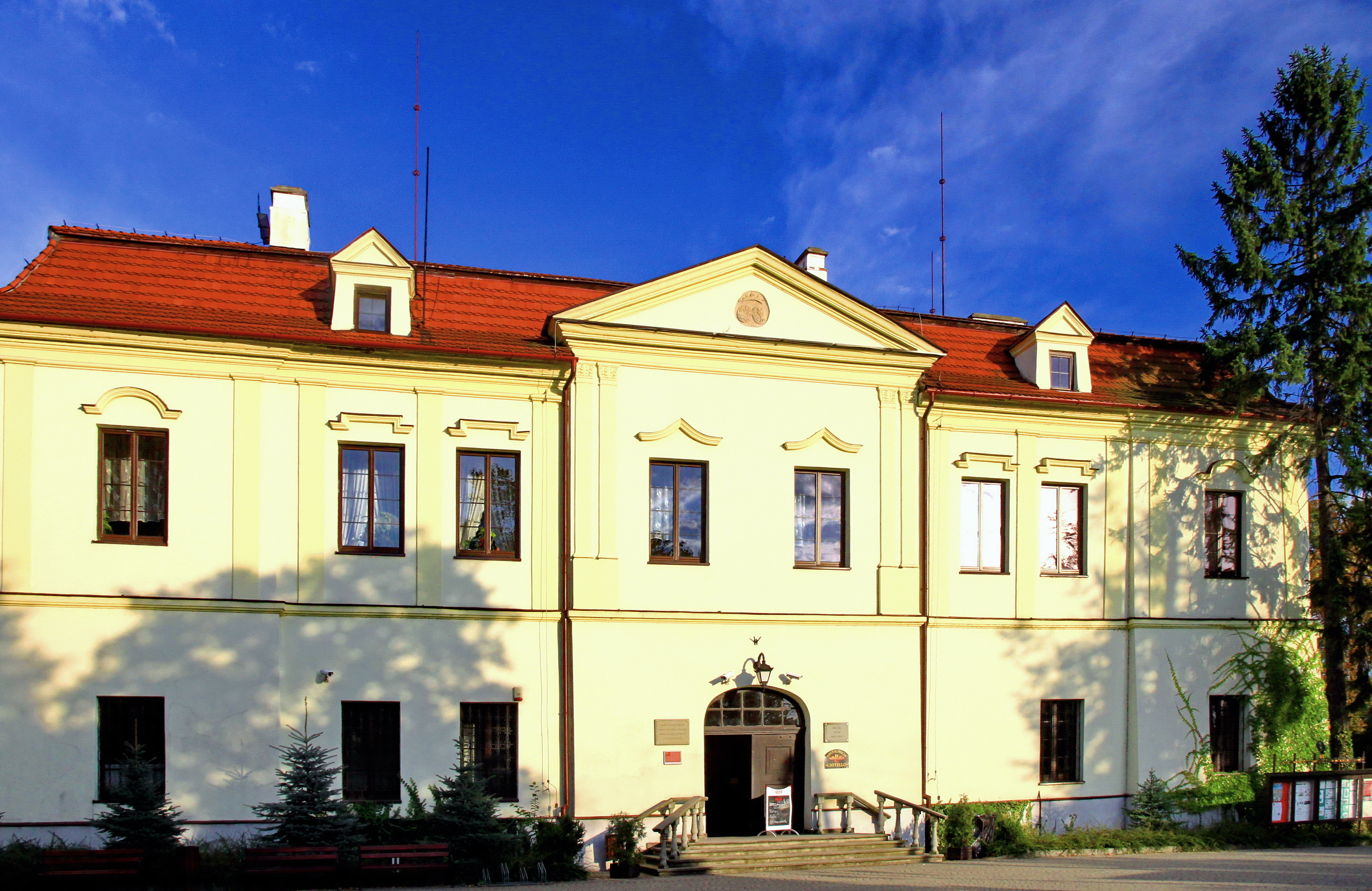 Palace. Zebrzydowice, Silesian Voivodeship, Poland.